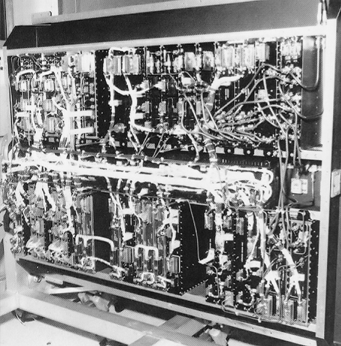 Photo of the radar processing equipment in the electronics box on the Magellan spacecraft